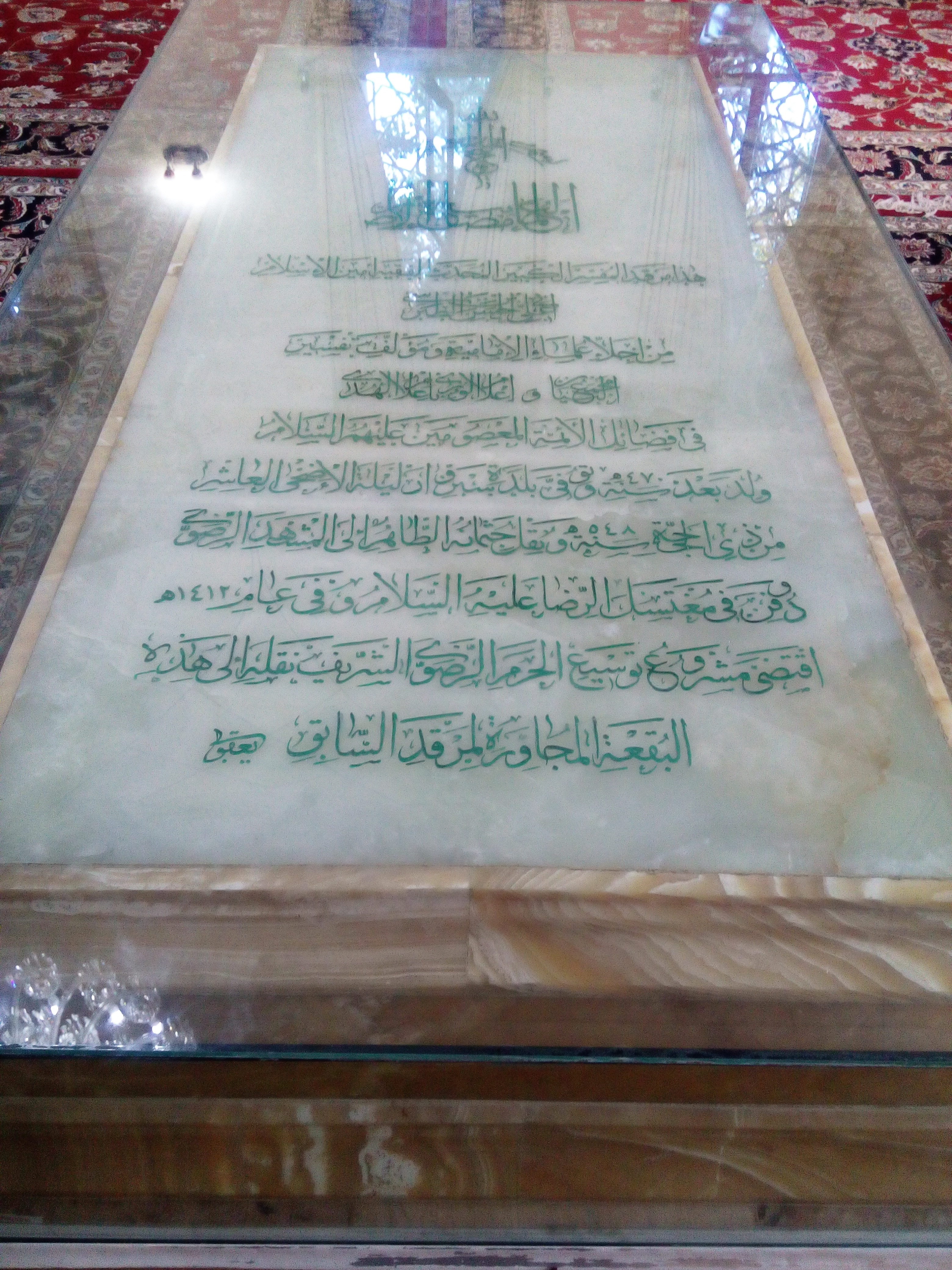 This is an image of the Grave of Shaykh Tabarsi in Mashhad, Iran